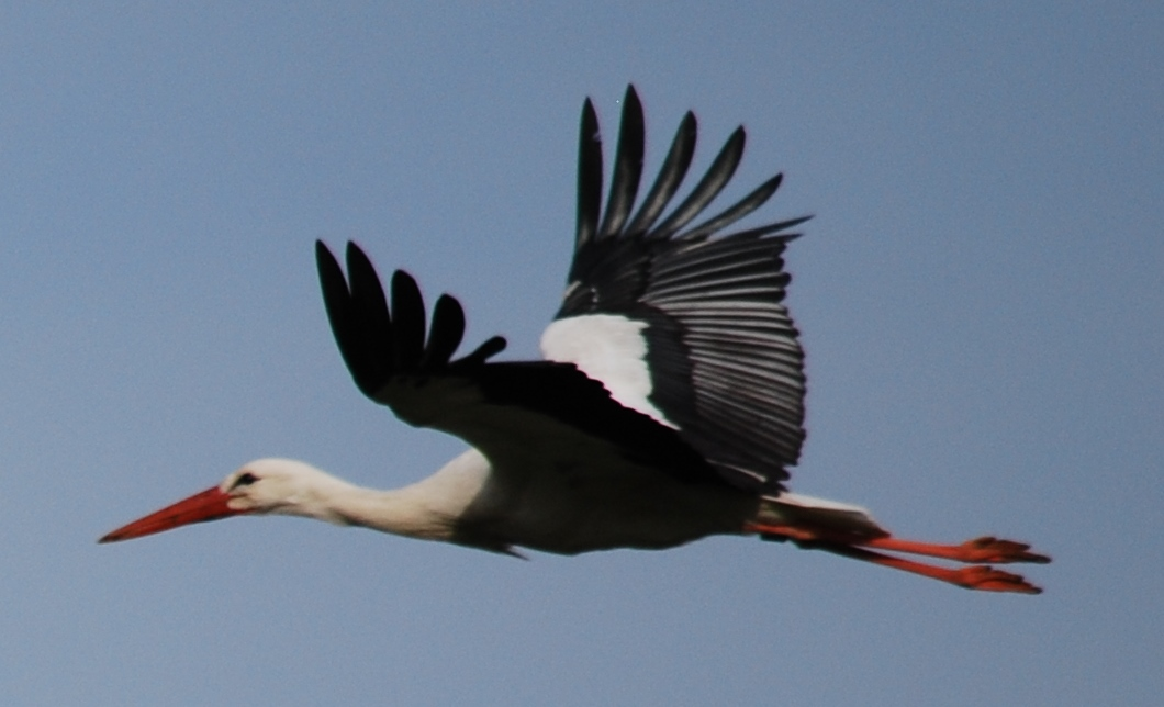 Ciconia at Oberuster, city of Uster, canton of Zürich, SwitzerlandEsperanto: Cikonio en Oberuster, urbo Uster, Kantono Zuriko, Svislando